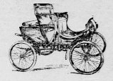 1902 Steamobile from an ad in the Washington Times 1902